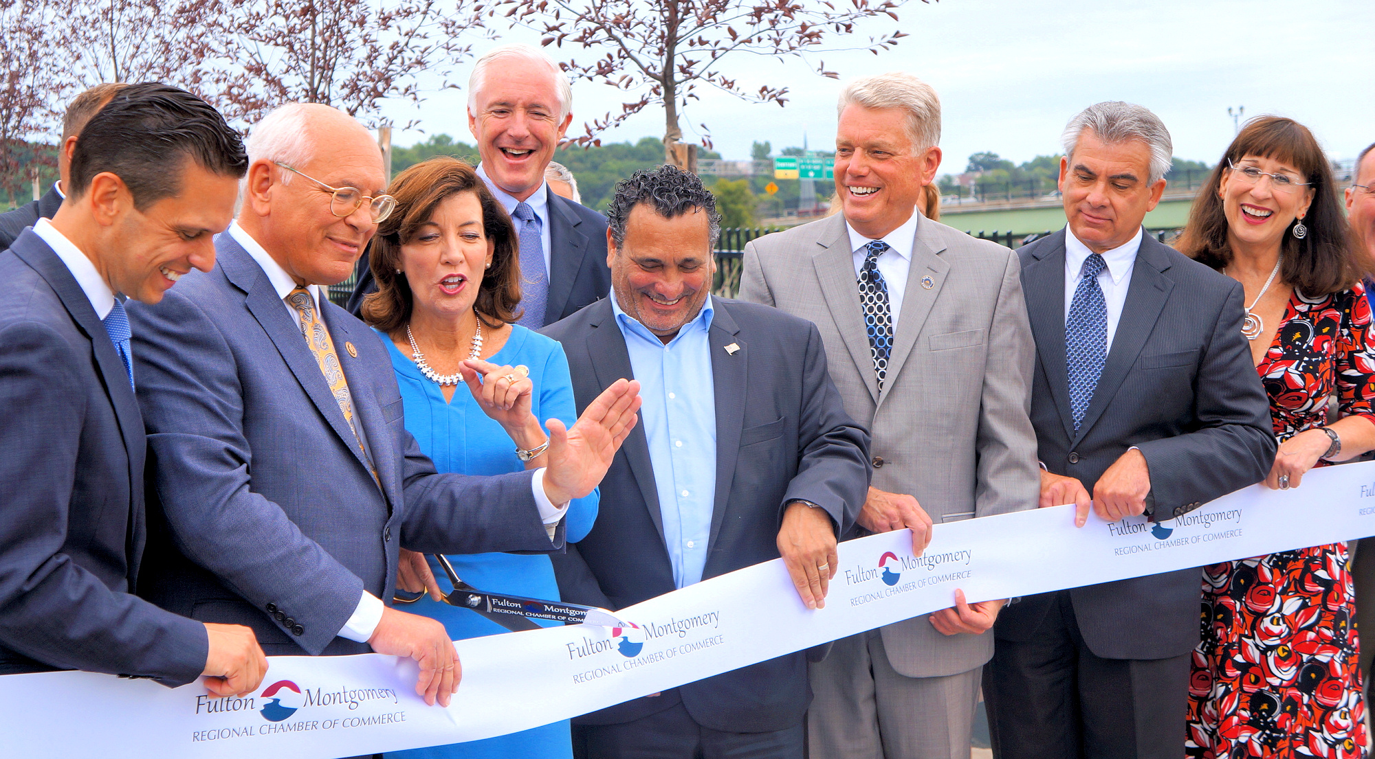 Officials at the ribbon cutting ceremony for the opening of the Mohawk Valley Gateway Overlook pedestrian bridge. From left to right: Angelo Santabarbara, New York State assemblyman, Paul Tonko, United States congressman, Kathy Hochul, New York lieutenant governor, Bill Finch, acting executive director of the New York Thruway Authority and Canal Corporation, Michael Villa, City of Amsterdam mayor, Brian Stratton, director of the New York Canal Corp, Mark Kilmer, president of the Fulton and Montgomery County Chamber of Commerce, former City of Amsterdam mayor Ann Thane.